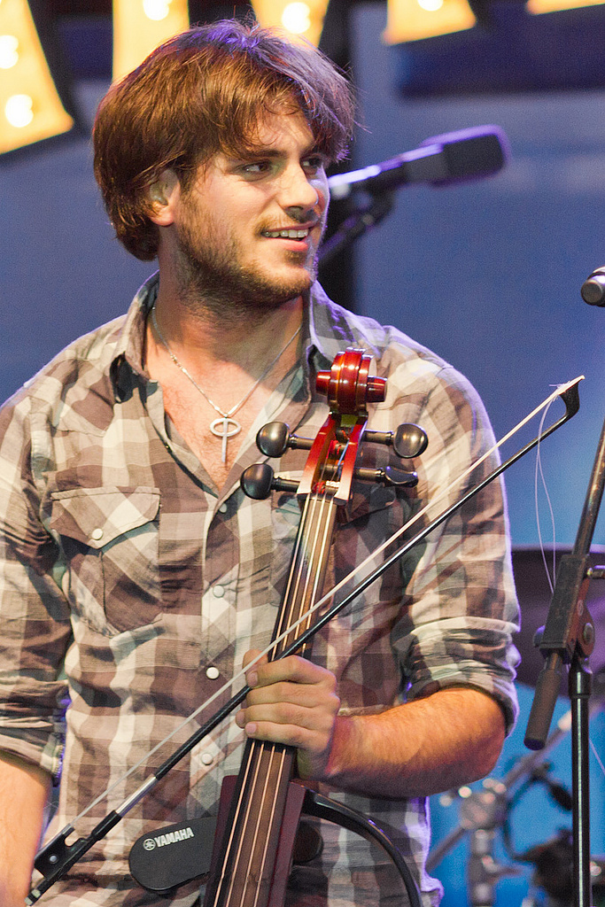 Stjepan Hauser at the shopping community Americana At Brand of Glendale, California (United States - August, 4th 2011)